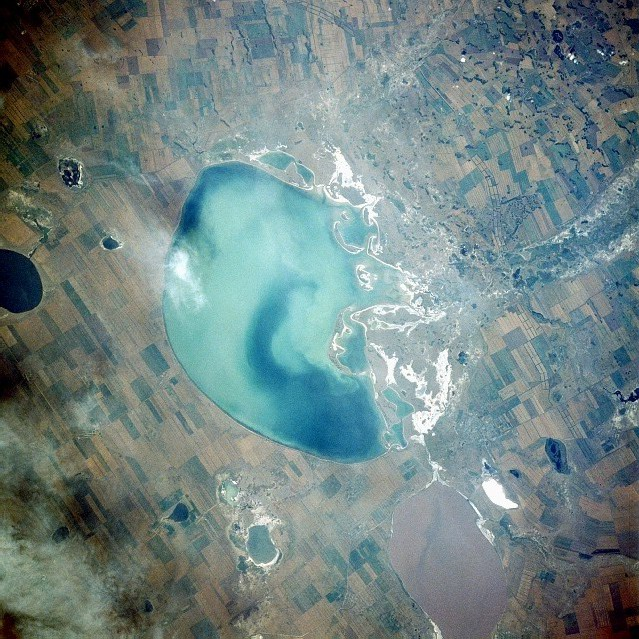 Lake Kulundinskoye, Russia - August 1989 Turned 180 degrees to make the top of the picture face northwards original image description here